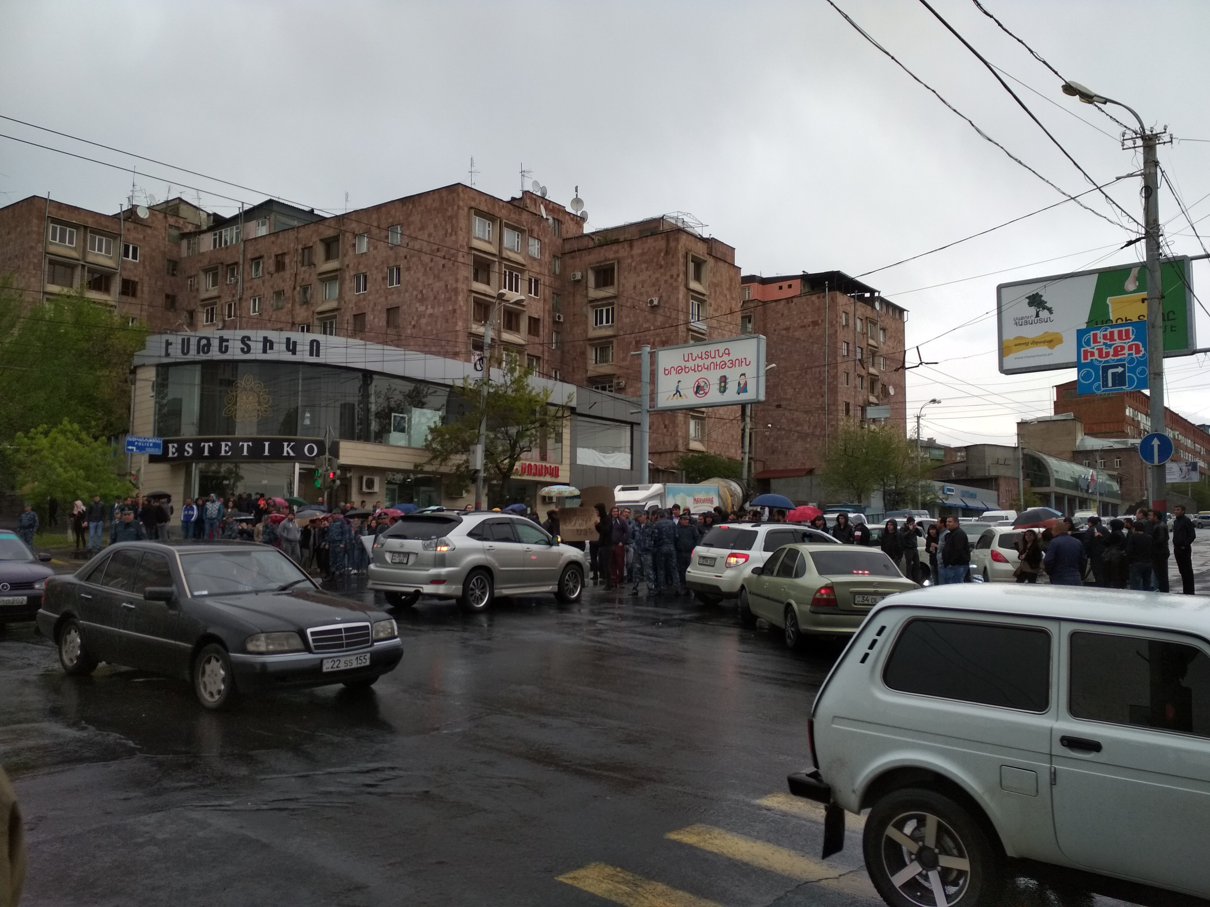 Protest Demonstrations, Yerevan